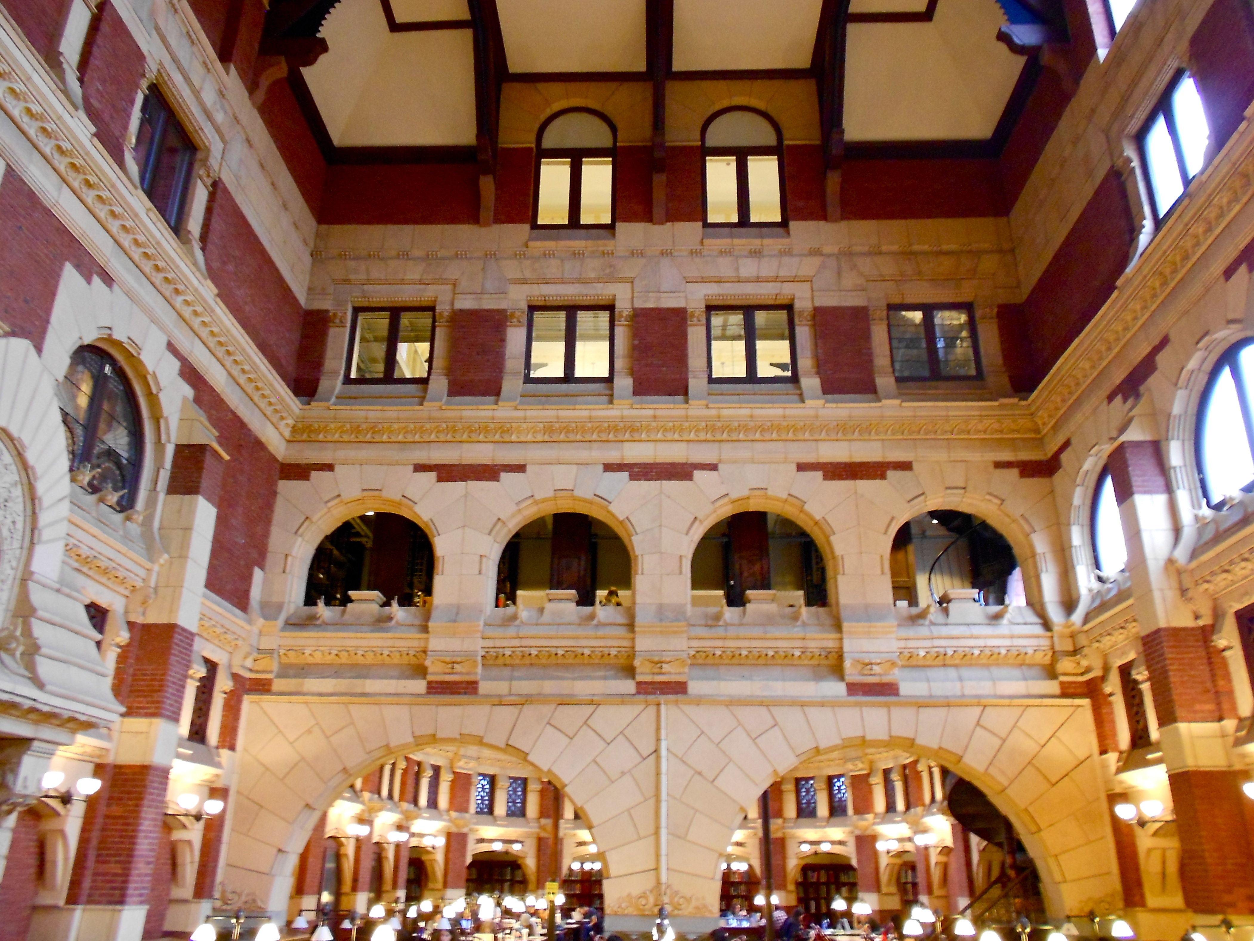 Main reading room in Furness Library listed on the NRHP on May 19, 1972. Also listed as aNational Historic Landmark. On 34th Street below Walnut on the University of Pennsylvania campus in West Philadelphia.Frank Furness, architect (1888–91).